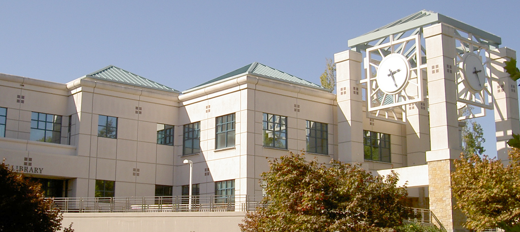 The east side of the Schultz Library on the Sonoma State Campus in Rohnert Park, California, USA.